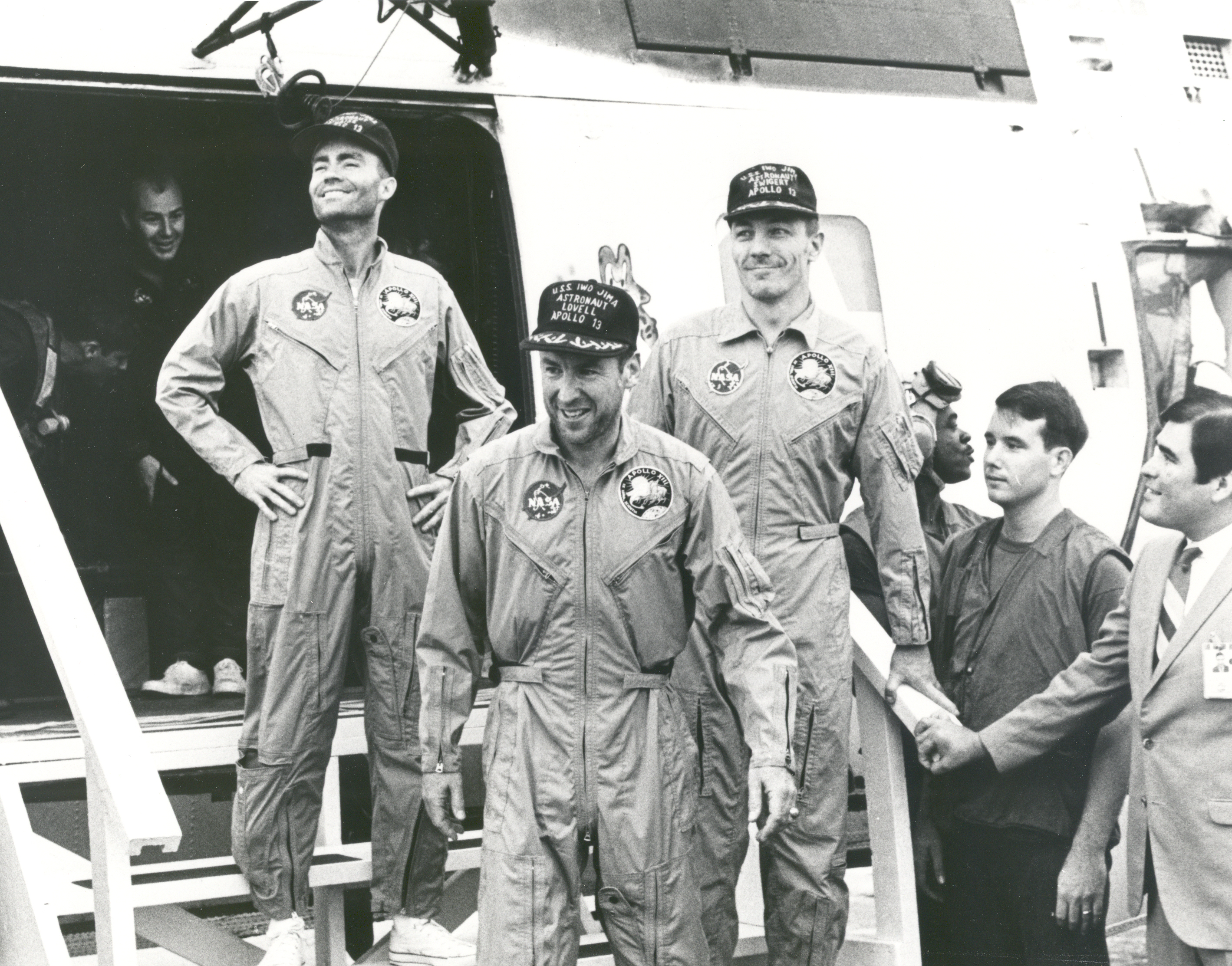 The crew of the Apollo 13 mission step aboard the U.S.S. Iwo Jima, prime recovery ship for the mission, following splashdown and recovery operations in the South Pacific. Exiting the helicopter, which made the pick-up some four miles from the Iwo Jima are (from left) astronauts Fred W. Haise, Jr., lunar module pilot; James A. Lovell Jr., commander; and John L. Swigert Jr., command module pilot. The Apollo 13 spacecraft splashed down at 12:07:44 pm CST on April 17, 1970.